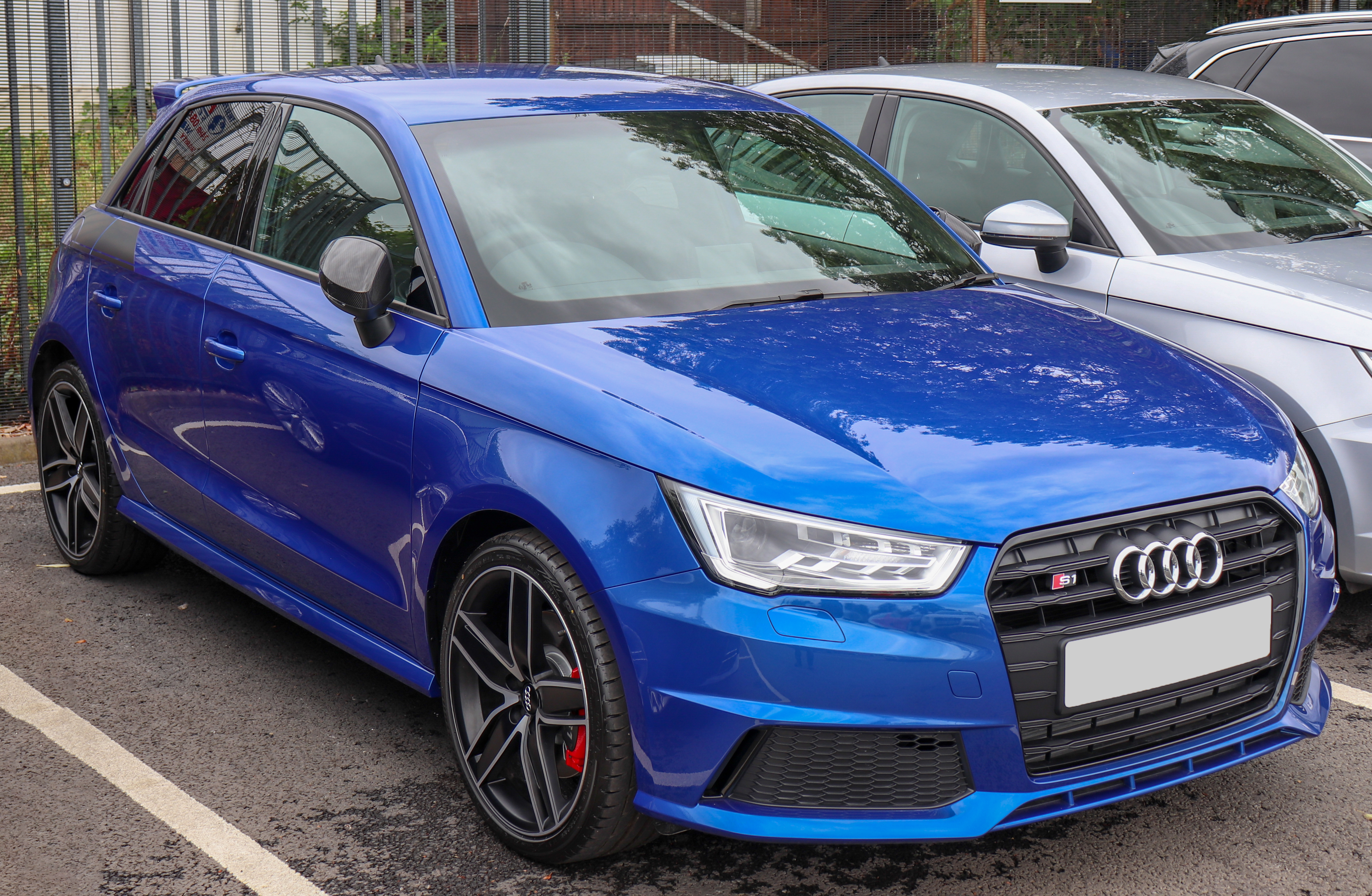 2018 Audi S1 Competition Quattro 2.0 Taken in Stratford-upon-Avon